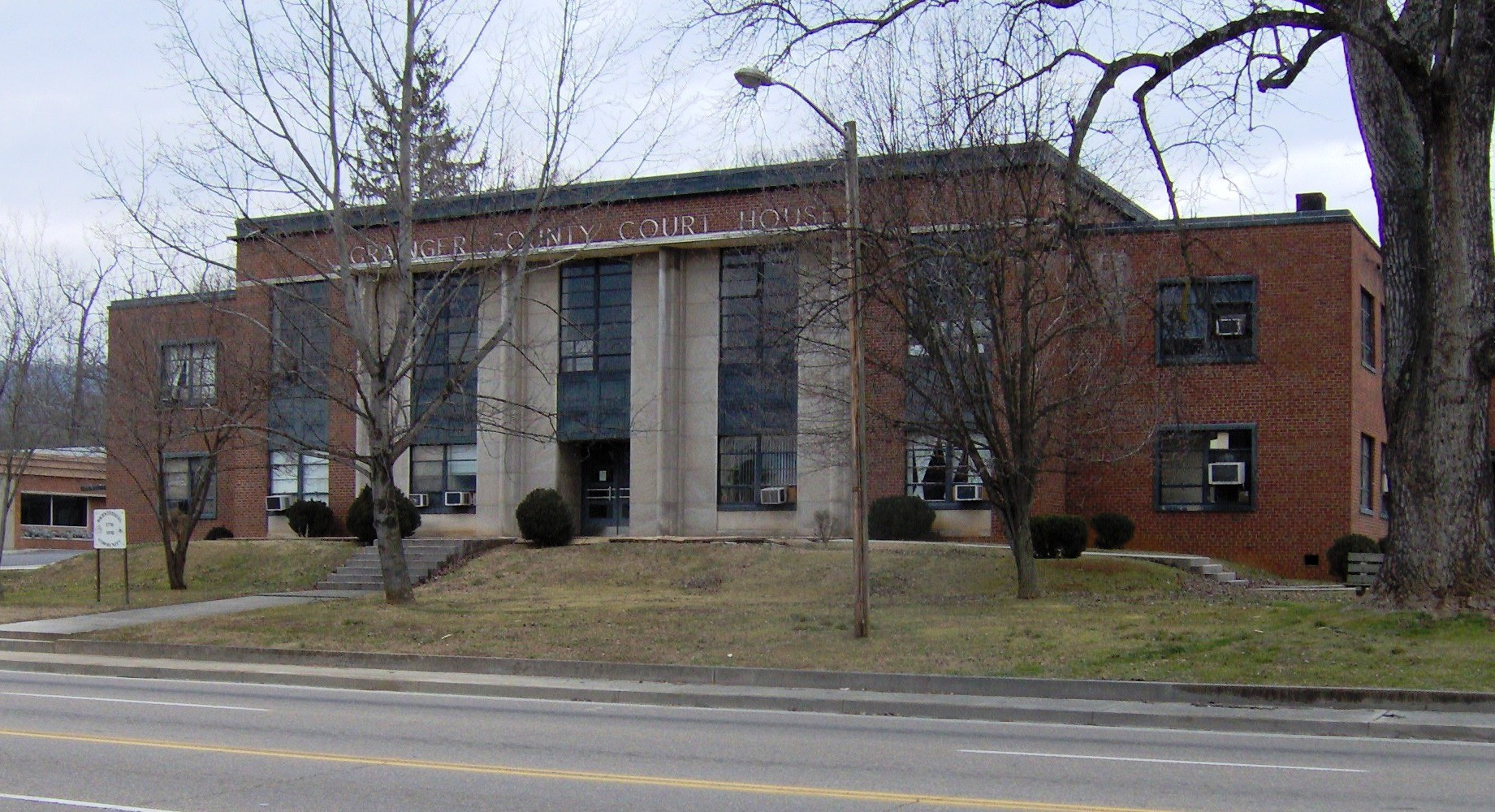 Grainger County Courthouse in Rutledge, Tennessee, in the southeastern United States.